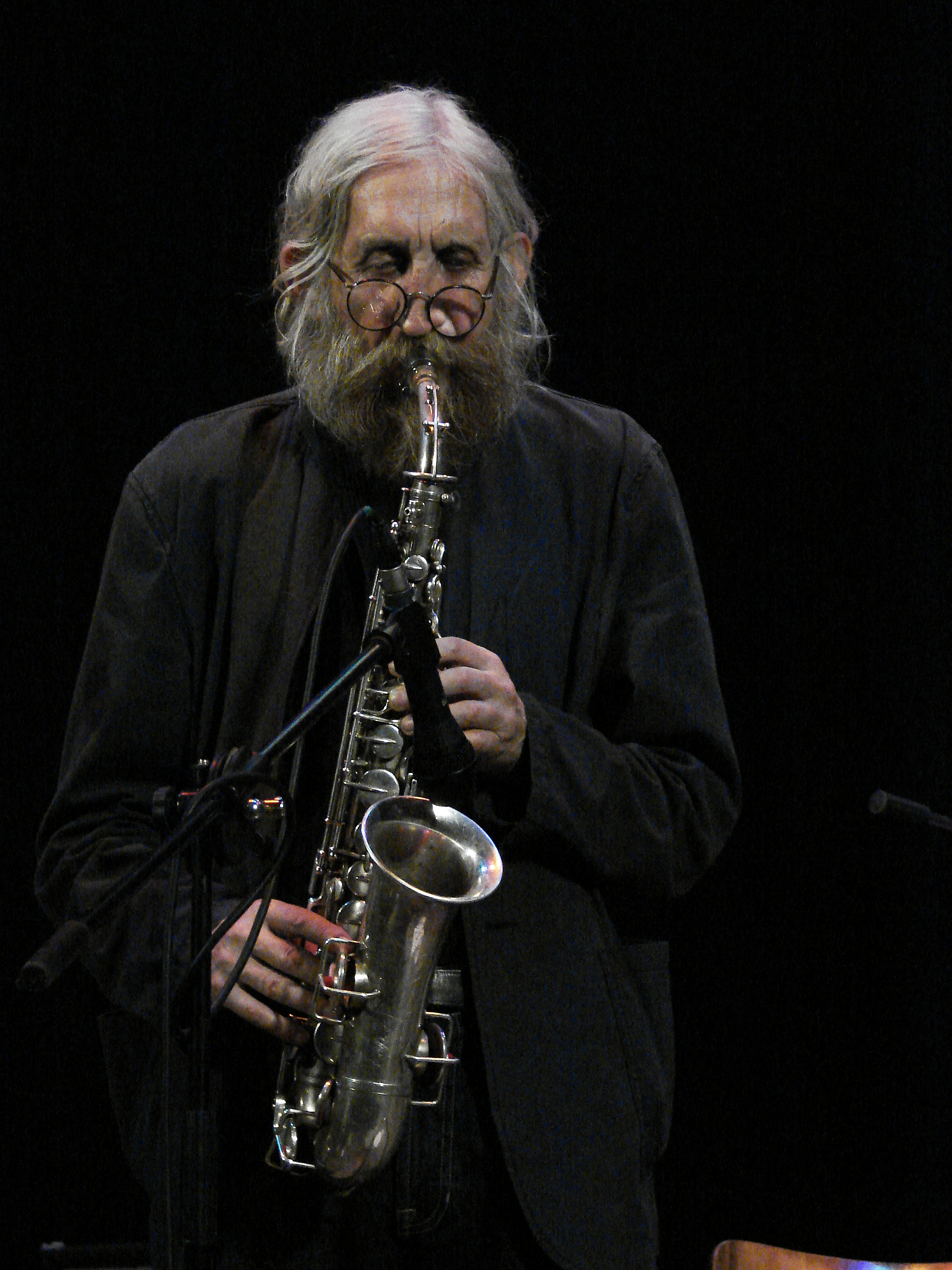 Vratislav Branenec playing the saxophone